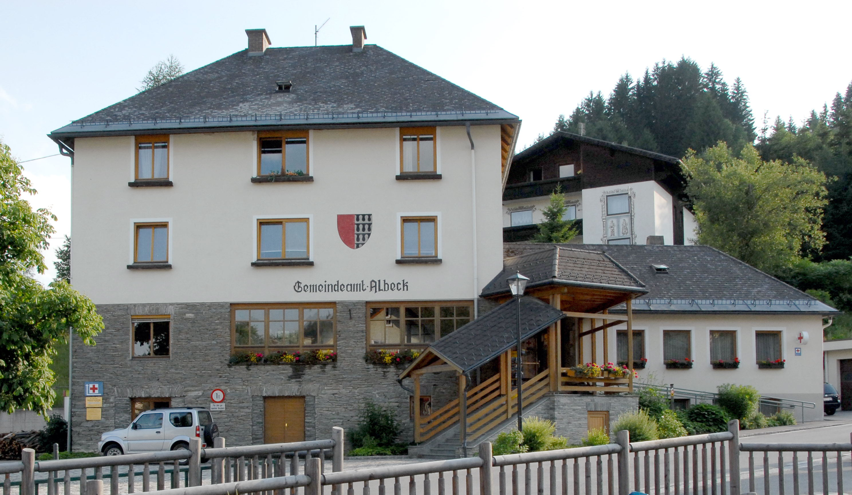 Municipal office in Sirnitz #1, municipality Albeck, district Feldkirchen, Carinthia, Austria, EU